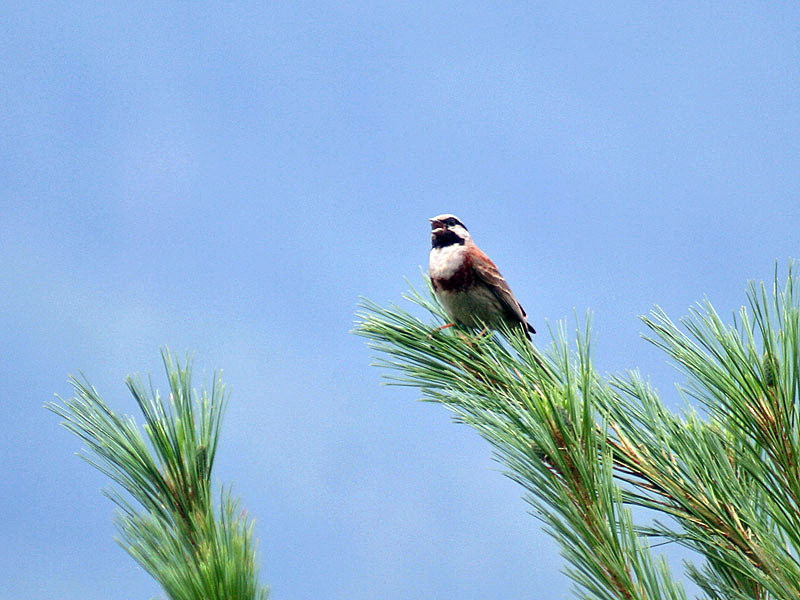 White-capped Bunting Emberiza stewarti at Kullu District of Himachal Pradesh, India.